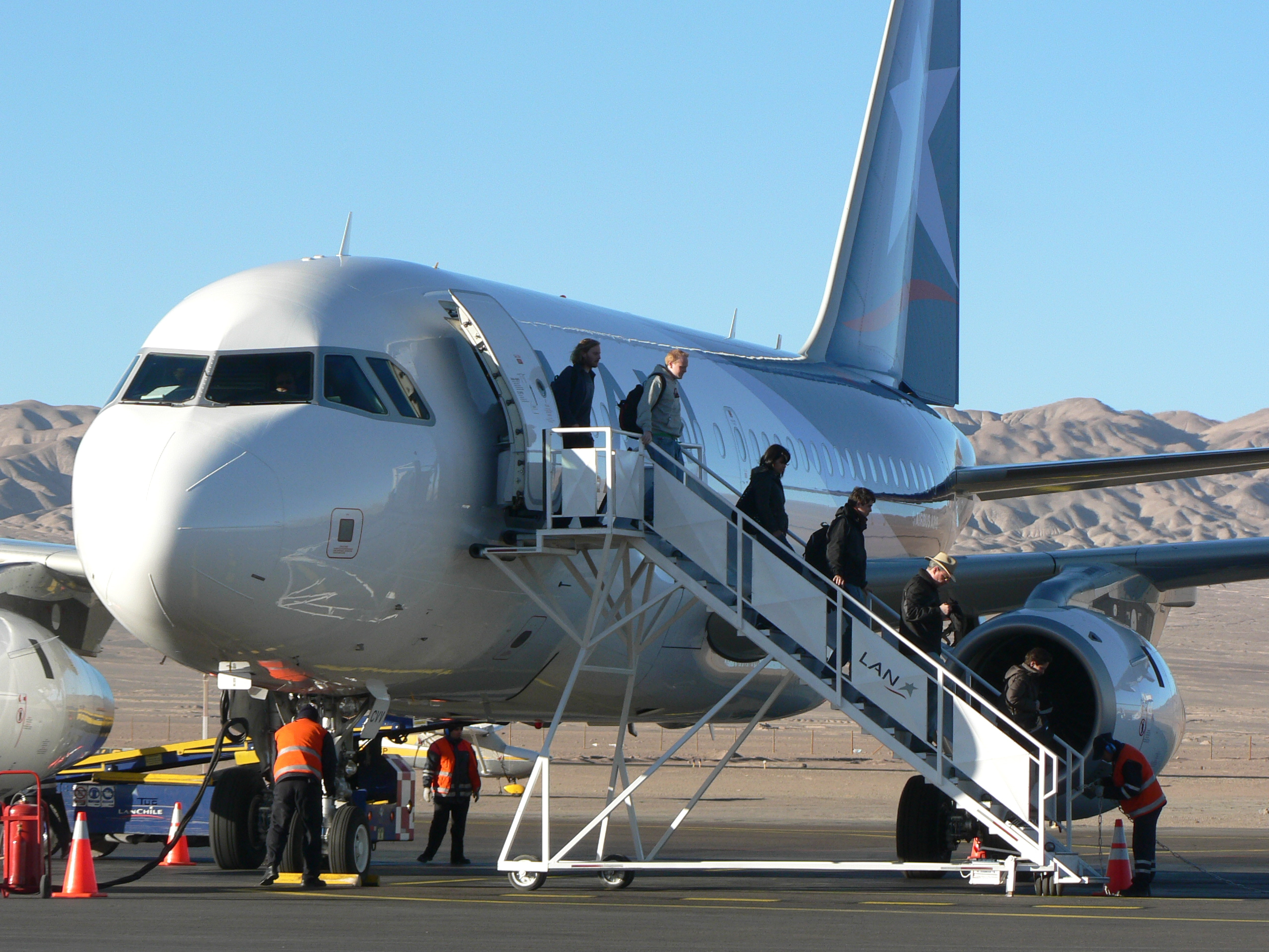 Passengers leaving a LAN flight from Santiago at Calama, Chile